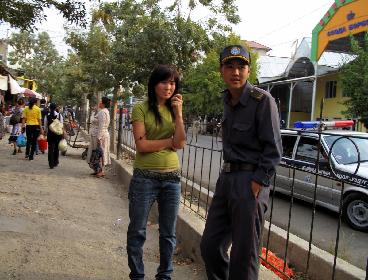 Soldier Boy and Girl